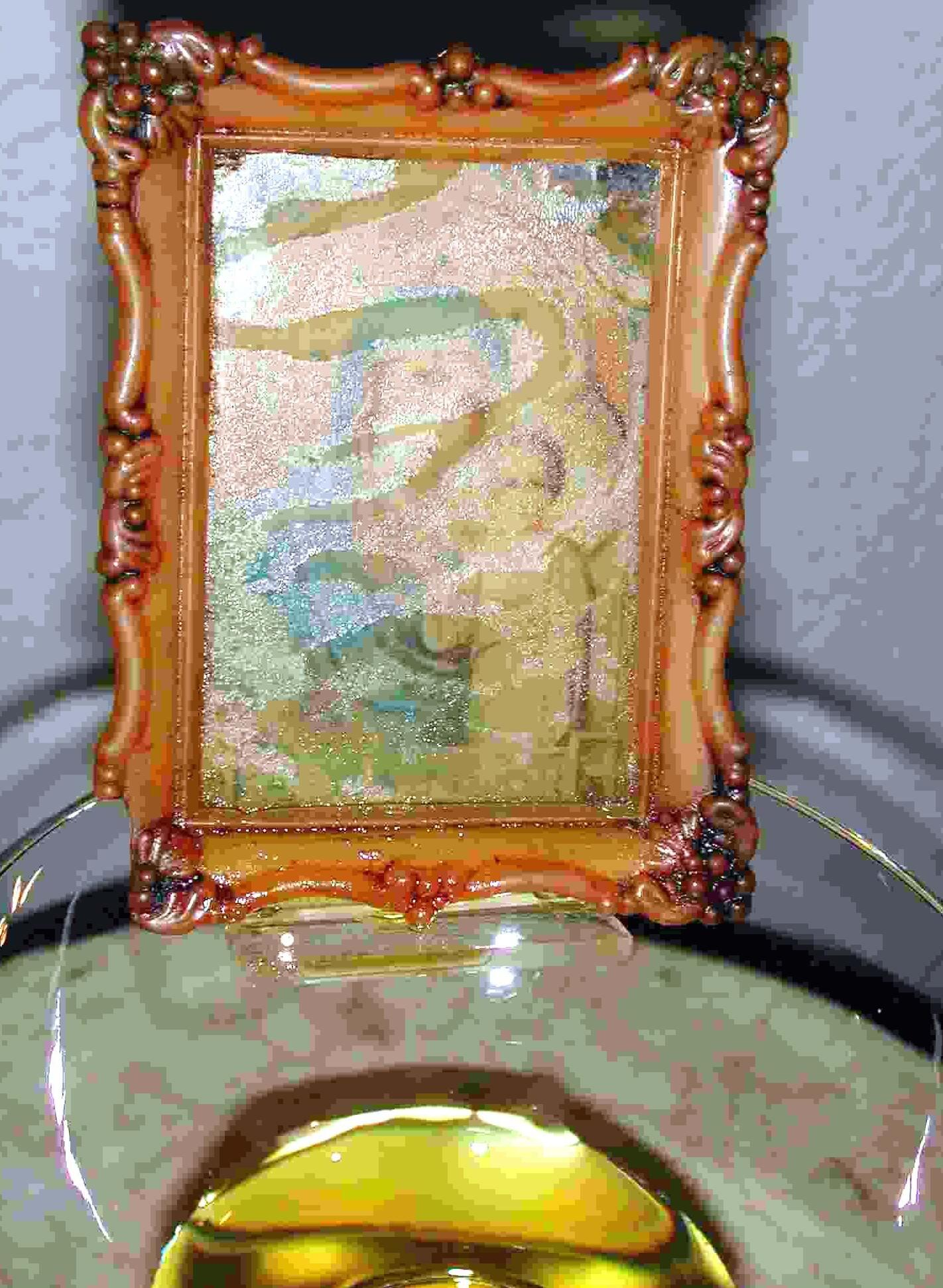 The Miracle of Damascus